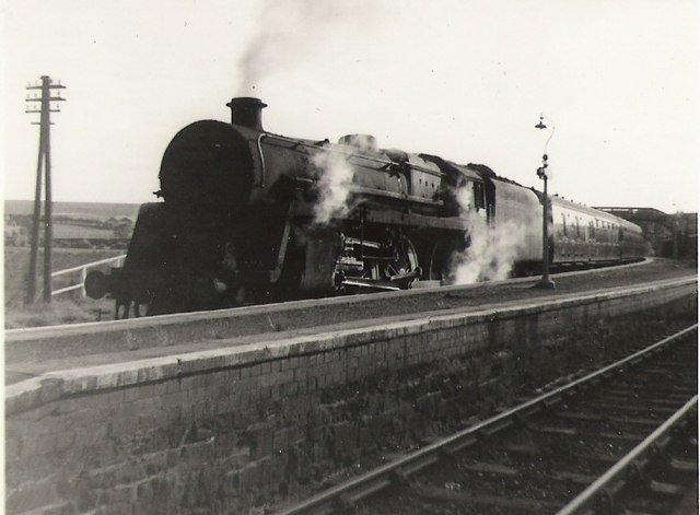 Train for Carlisle at Stranraer Town station. BR Standard class 4-6-0 about to depart from the former Stranraer(Town) railway station on the now closed line to Carlisle.